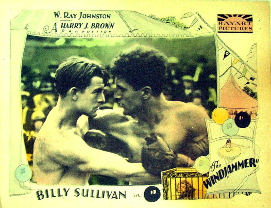 Lobby card for the 1926 film The Windjammer with Billy Sullivan.